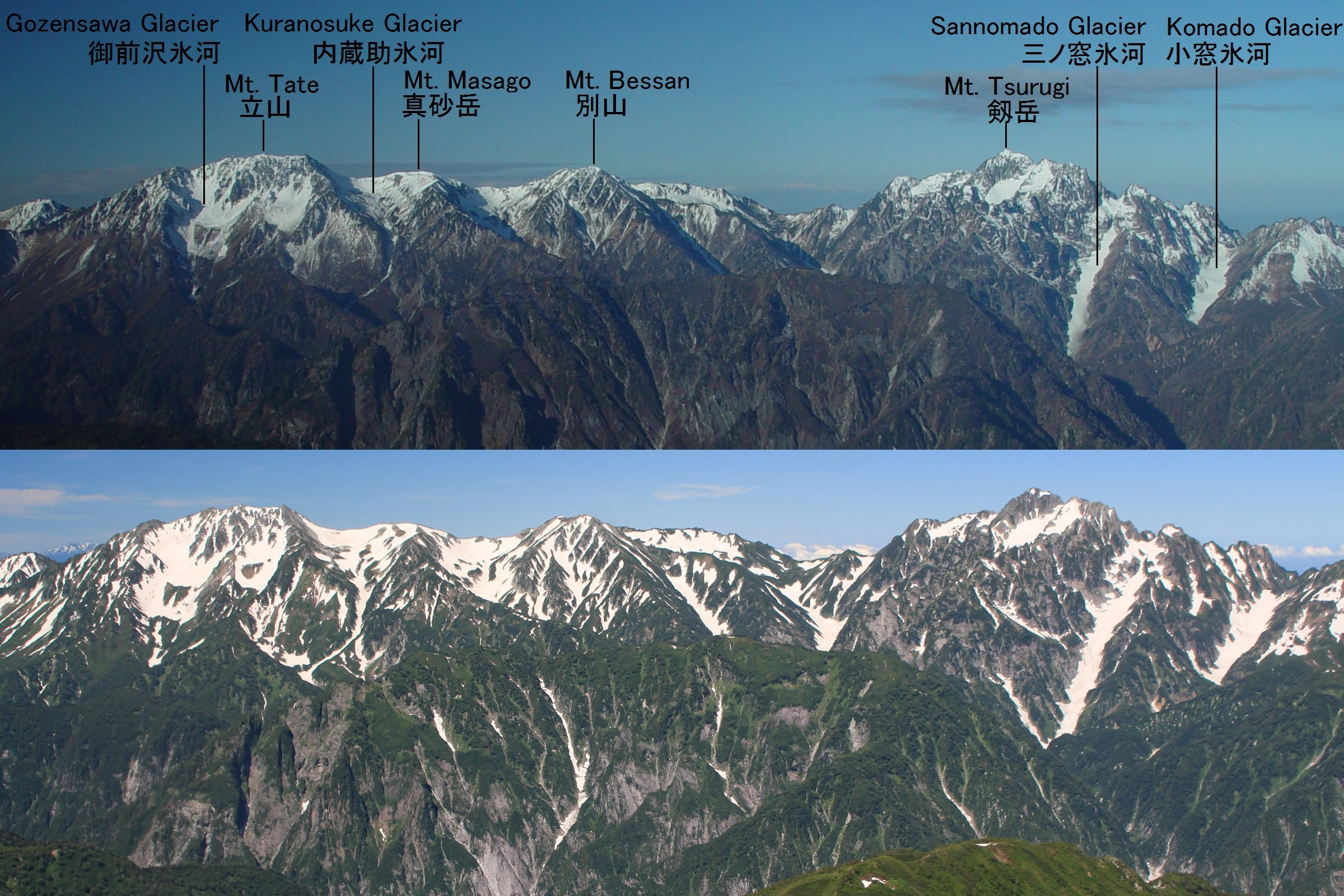 Mount Tate and Mount Tsurugi seen from Mount Kashimayari in Hida Mountains, Toyama Prefecture, Japan.